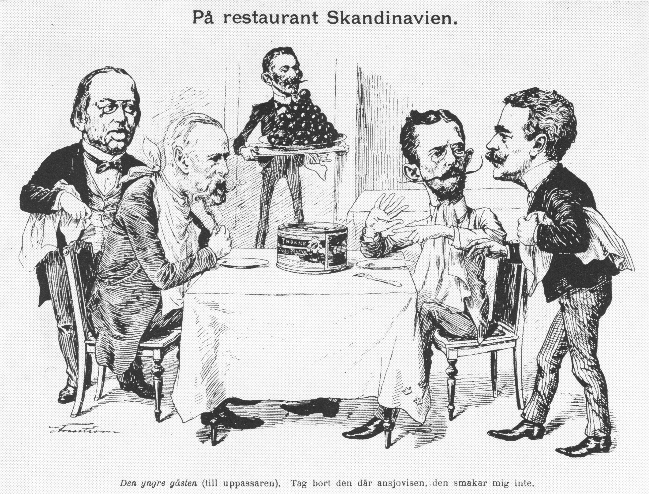 The king and the crown prince are served Thornes tinned sprats. Waiter is prime minister Boström and minister for foreign affairs Douglas. The crown prince says: "Take away those tinned sprats. I don't like them." Swedish caricature from 1895.